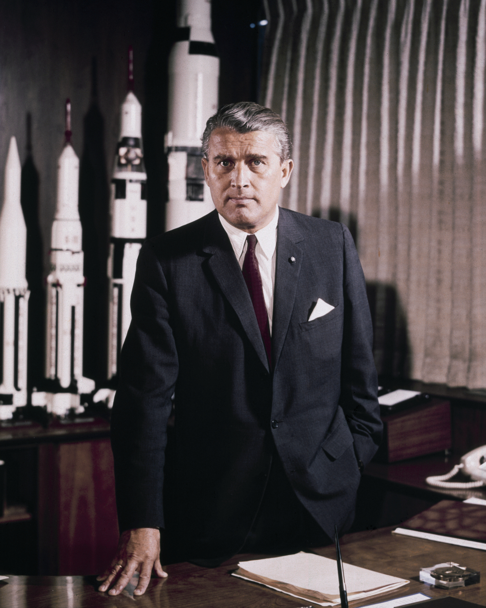 Dr. von Braun became Director of the NASA Marshall Space Flight Center on July 1, 1960.